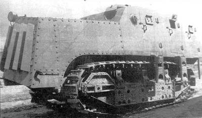 Soviet experimental „landing tank“ (APC) D-14 during the state tests, 3/4 view.